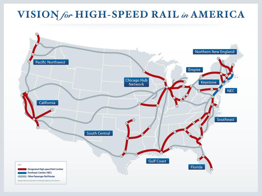 Map showing US high speed rail corridors as of July 9th, 2009.